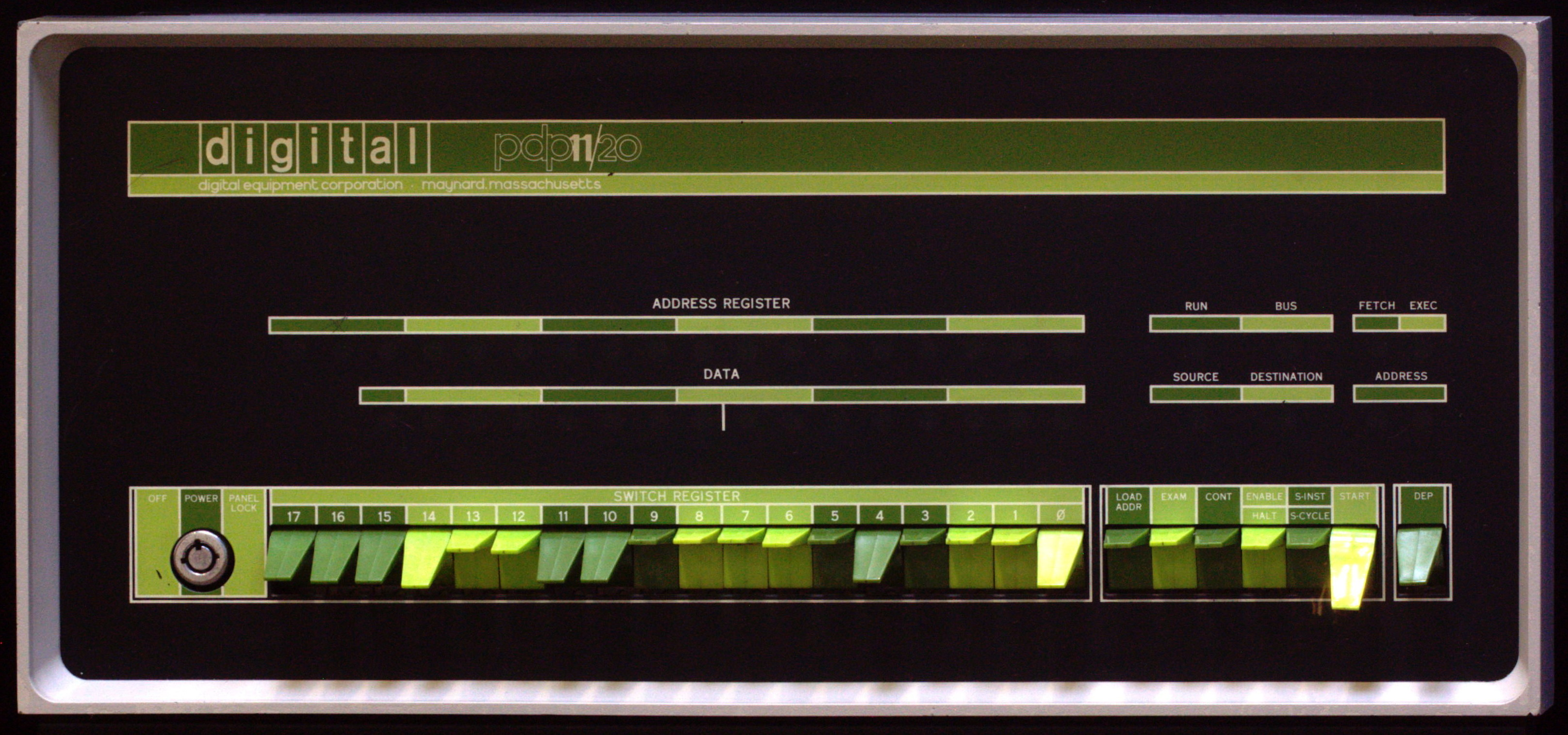 PDP-11/20. On display at the Musée Bolo, EPFL, Lausanne. The making of this document was supported by Wikimedia CH.(Submit your project!) For all the files concerned, please see the category Supported by Wikimedia CH.